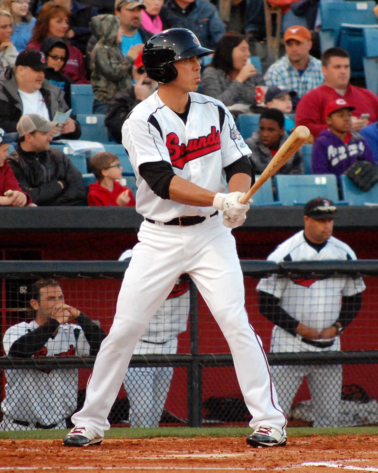 Cole Garner, a right fielder for the minor league Nashville Sounds, prepares to bat in a game at Herschel Greer Stadium on April 20, 2013